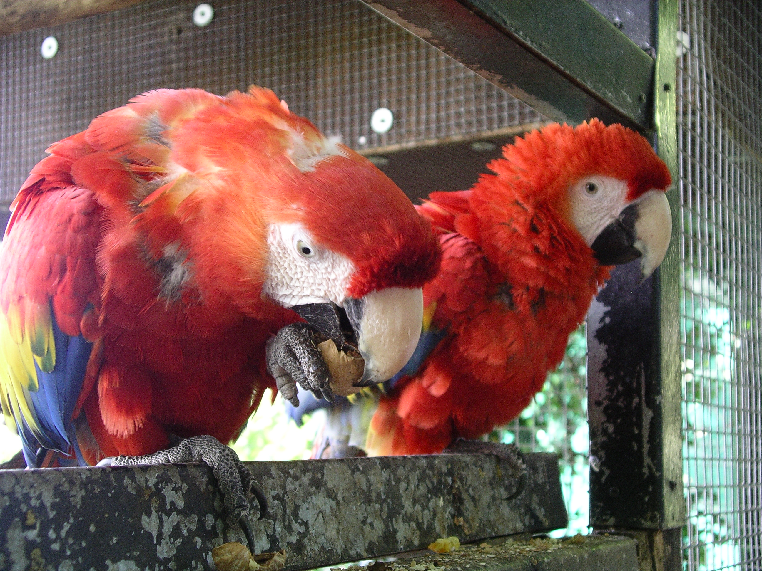 photo of Scarlet Macaws in Tropical Birdland, Leicestershire, England. One of them is eating a wallnut using while his/her talon to hold the nut.